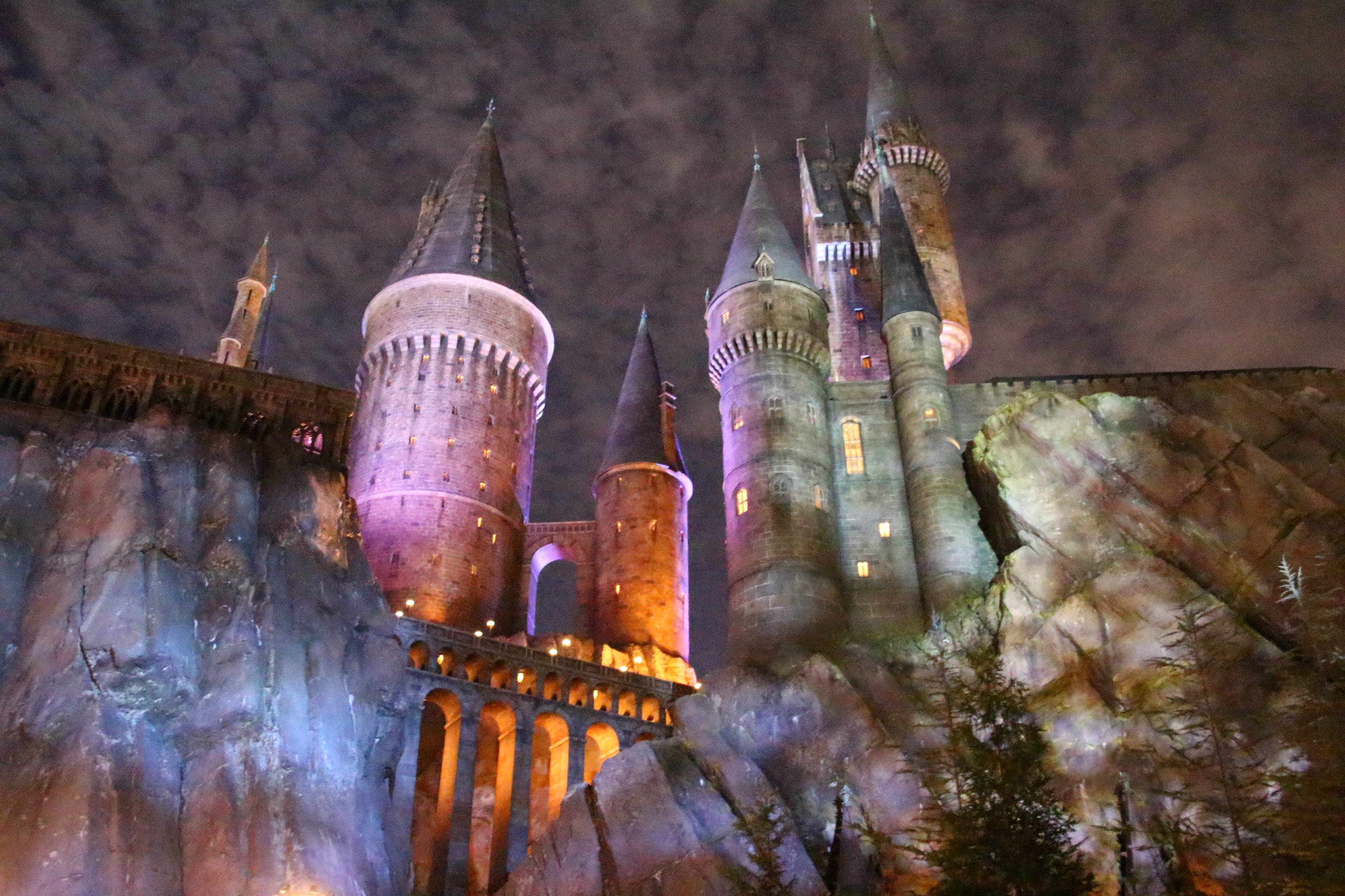 Hogwarts Castle at the Harry Potter and the Forbidden Journey amusement ride in the Wizarding World of Harry Potter at the Islands of Adventure amusement theme park at Universal Orlando in Orlando, Florida, illuminated at night.